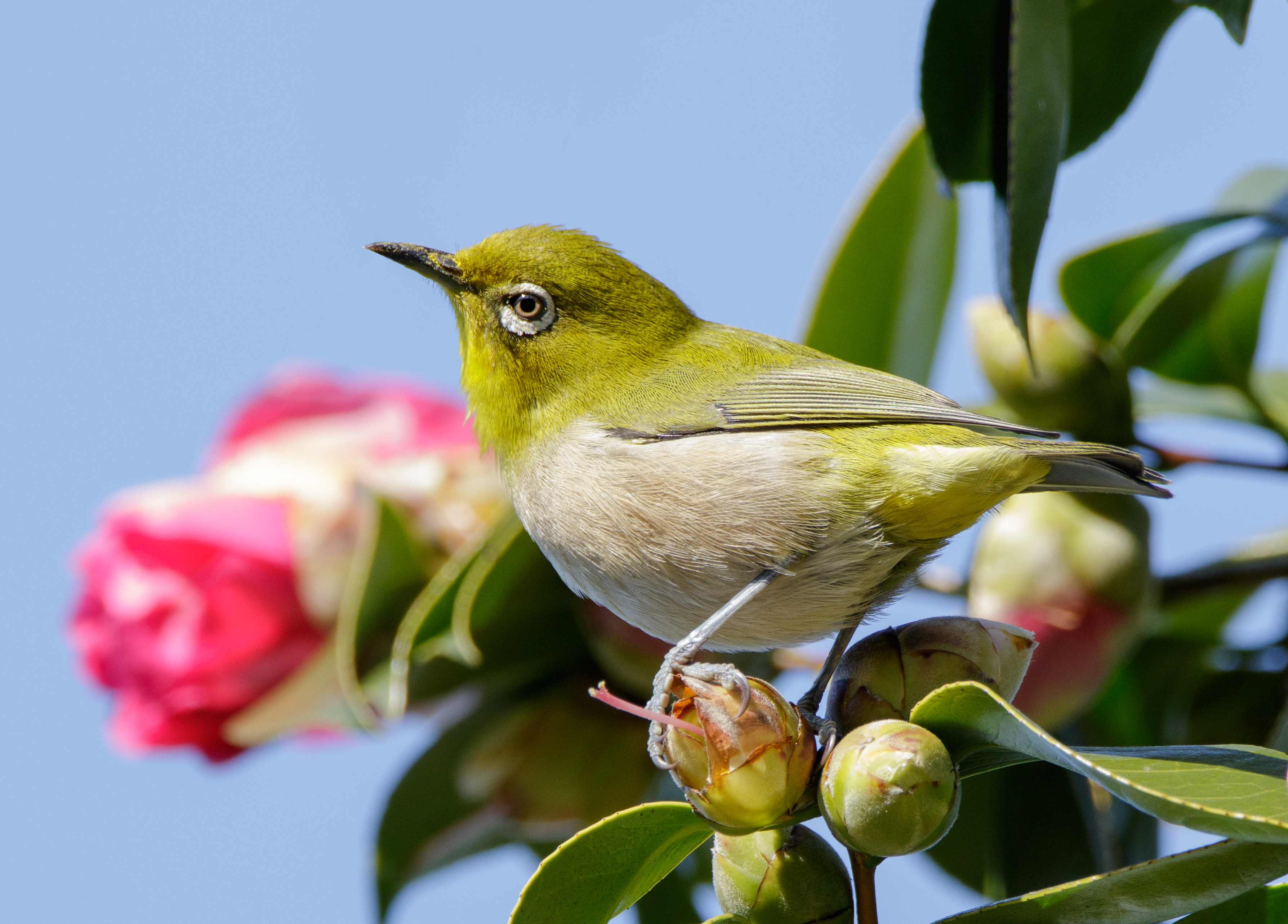 Japanese white-eye at Tennōji Park in Osaka.